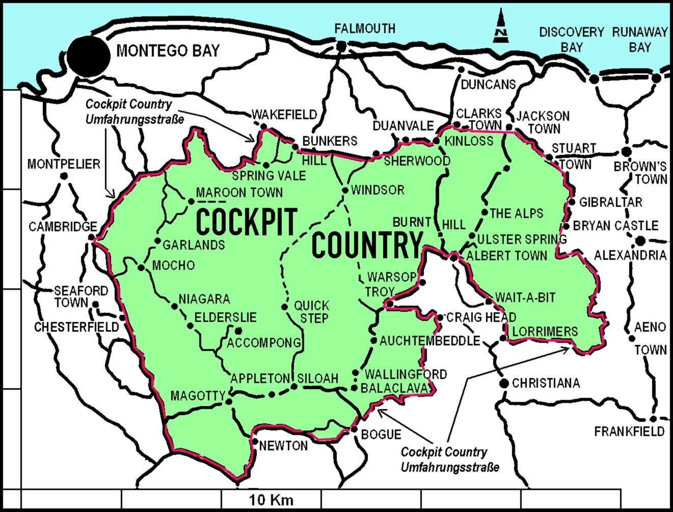 General map of Cockpit Country